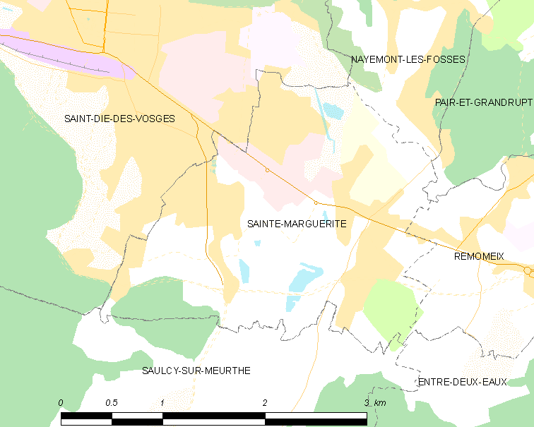 Map of French municipality Sainte-Marguerite